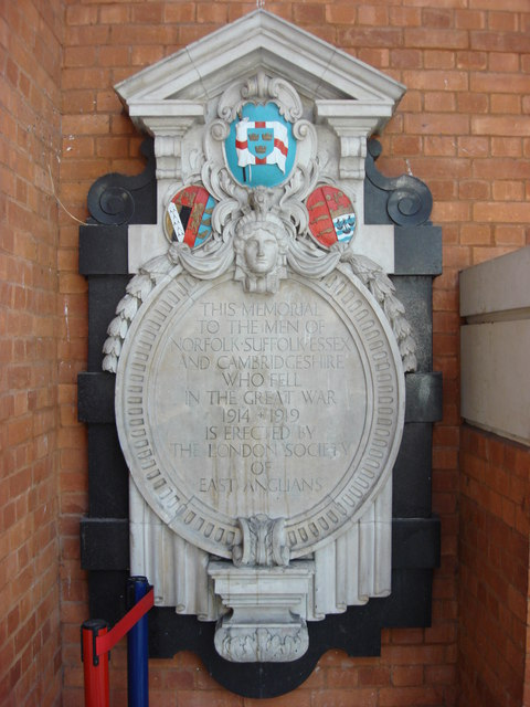 Memorial to East Anglians who died during The Great War This War Memorial is in Liverpool Street Station